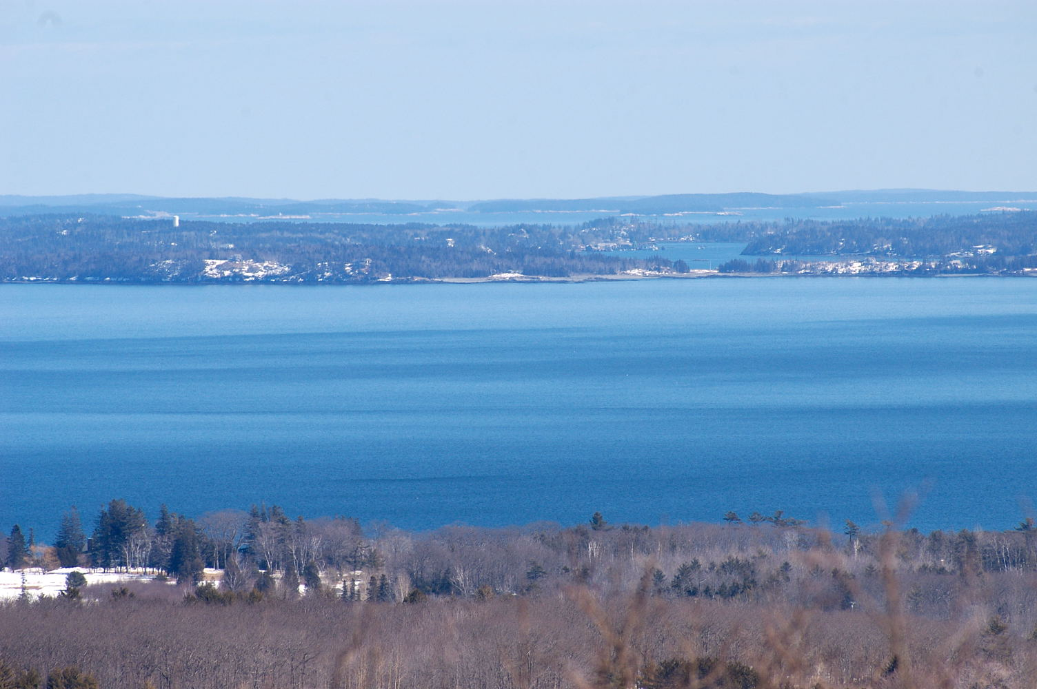 photo by Jason Philbrook. Other images of the area available at